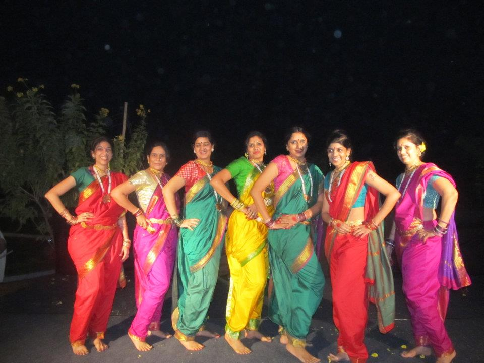 6th Nov. Theme of fellowship was Maharashtra, the state Nagpur is located in. So we all turned out in Tradional Maharashtrian dresses. Members also performed tradional dances and played Maharashtrian Sports